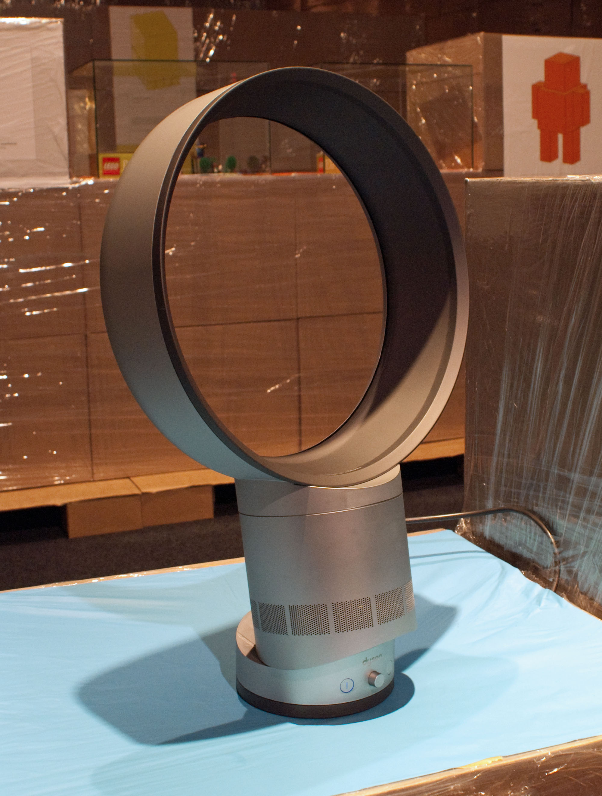 Dyson Air Multipier Fan, the world's first bladeless fan. "21 design stories" – exhibition at Institute of Industrial Design in Warsaw.